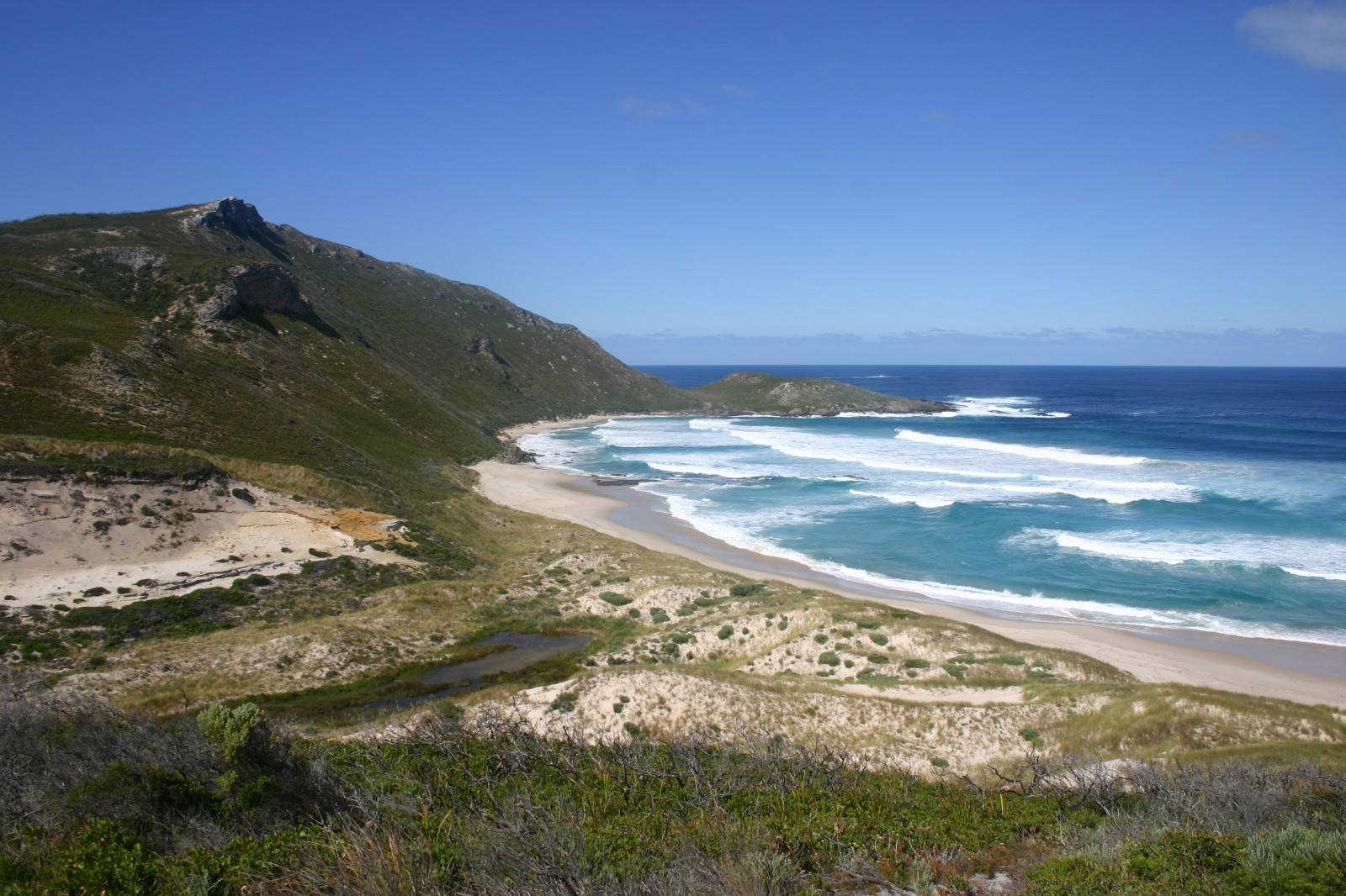 I took this photograph in April 2006. Takver ( It is Released under GNU FDL. Conspicuous cliff, Walpole-Nornalup National Park